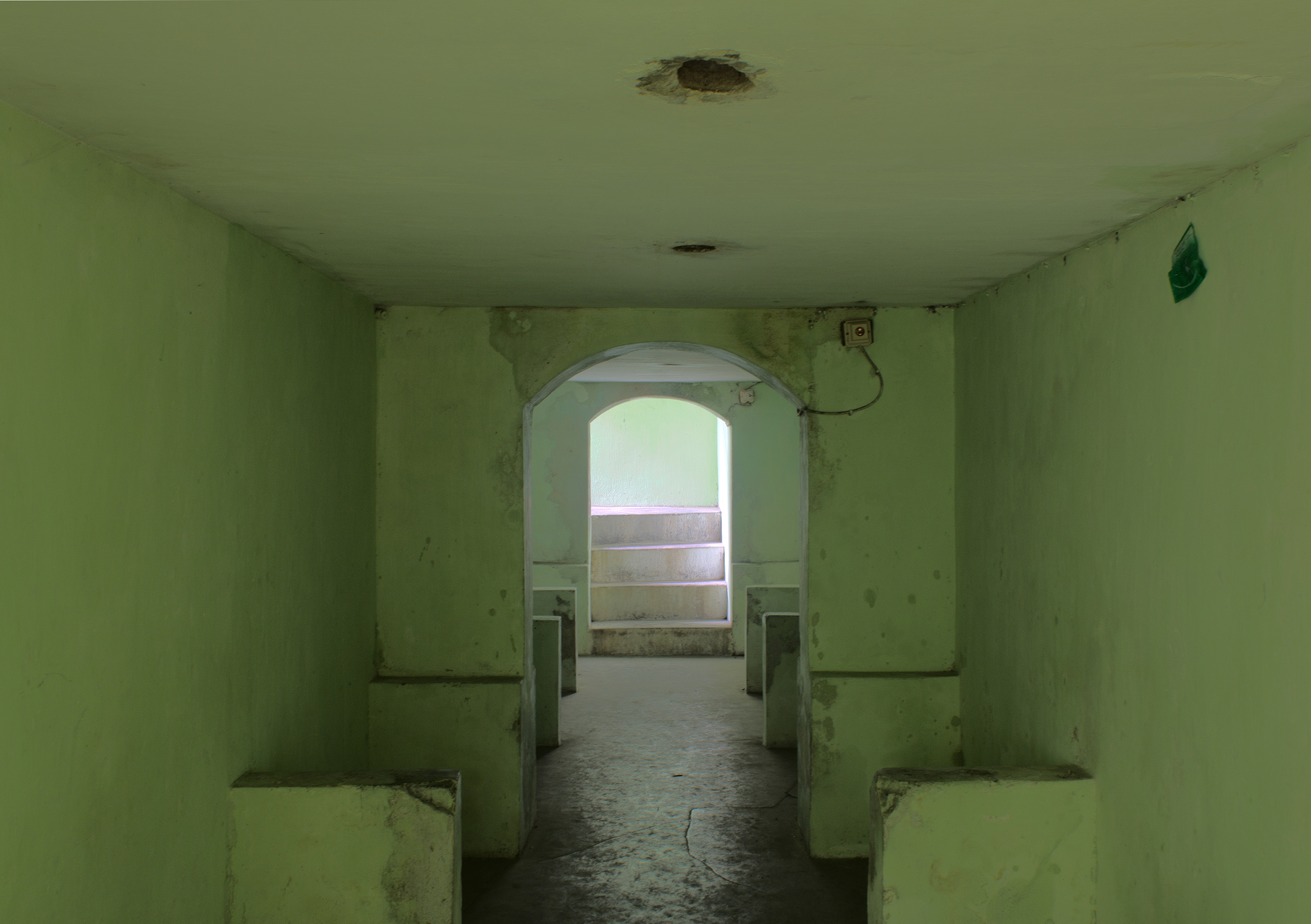 Interior of the bunker at Dharma Wiratama Museum, Yogyakarta